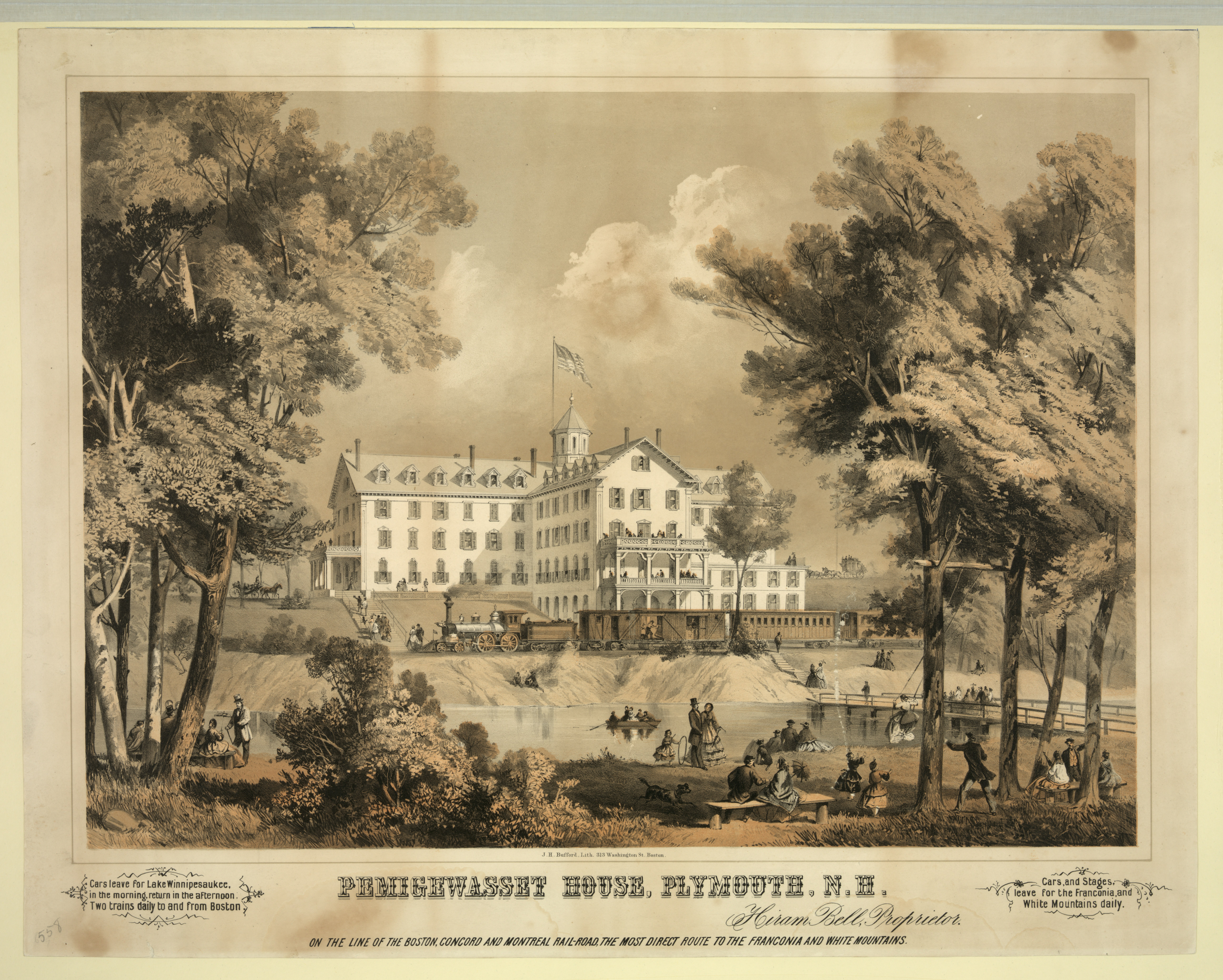 Title: Pemigewasset House, Plymouth, N.H. On the line of the Boston, Concord and Montreal Rail-road, the most direct route to the Franconia and White Mountains / / J.H. Bufford lith. Abstract/medium: 1 print : lithograph, color.